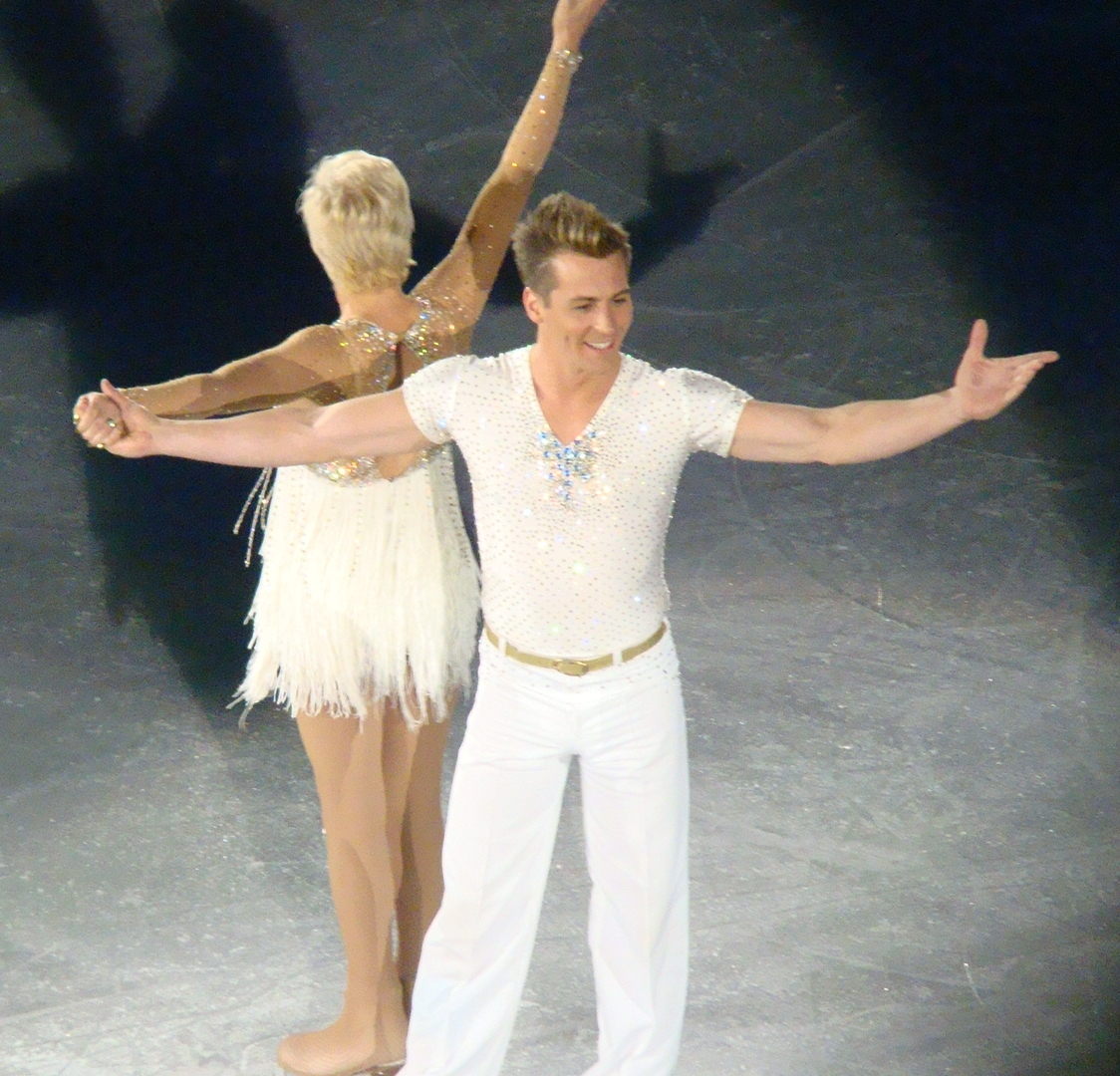 Denise Welch and Matt Evers on the Dancing on Ice tour at the Manchester M.E.N Arena 1.30pm Sunday 1st May 2011.